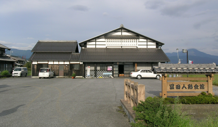 Taken outside of the Tonda Practice Hall in 2006.